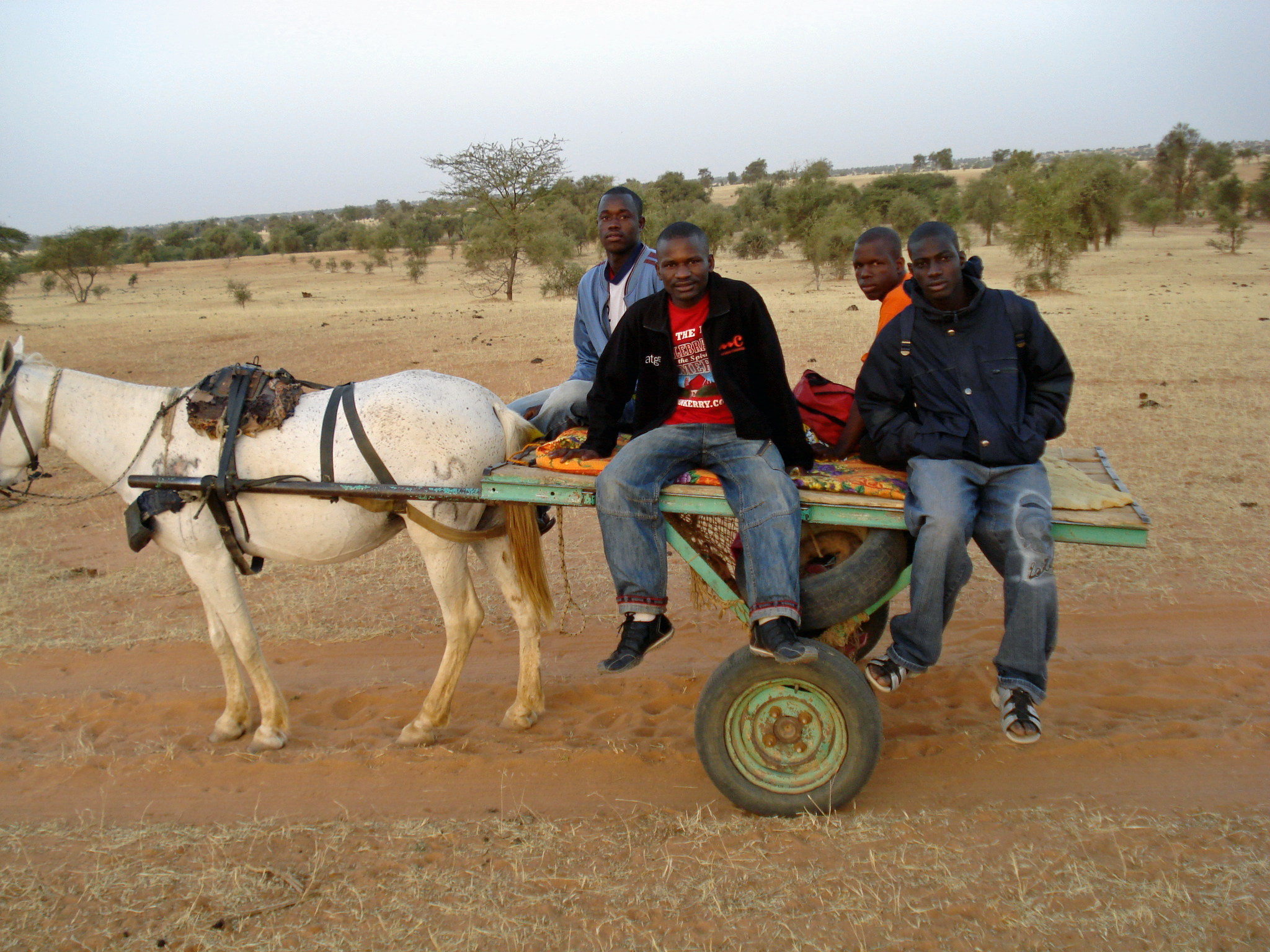 text